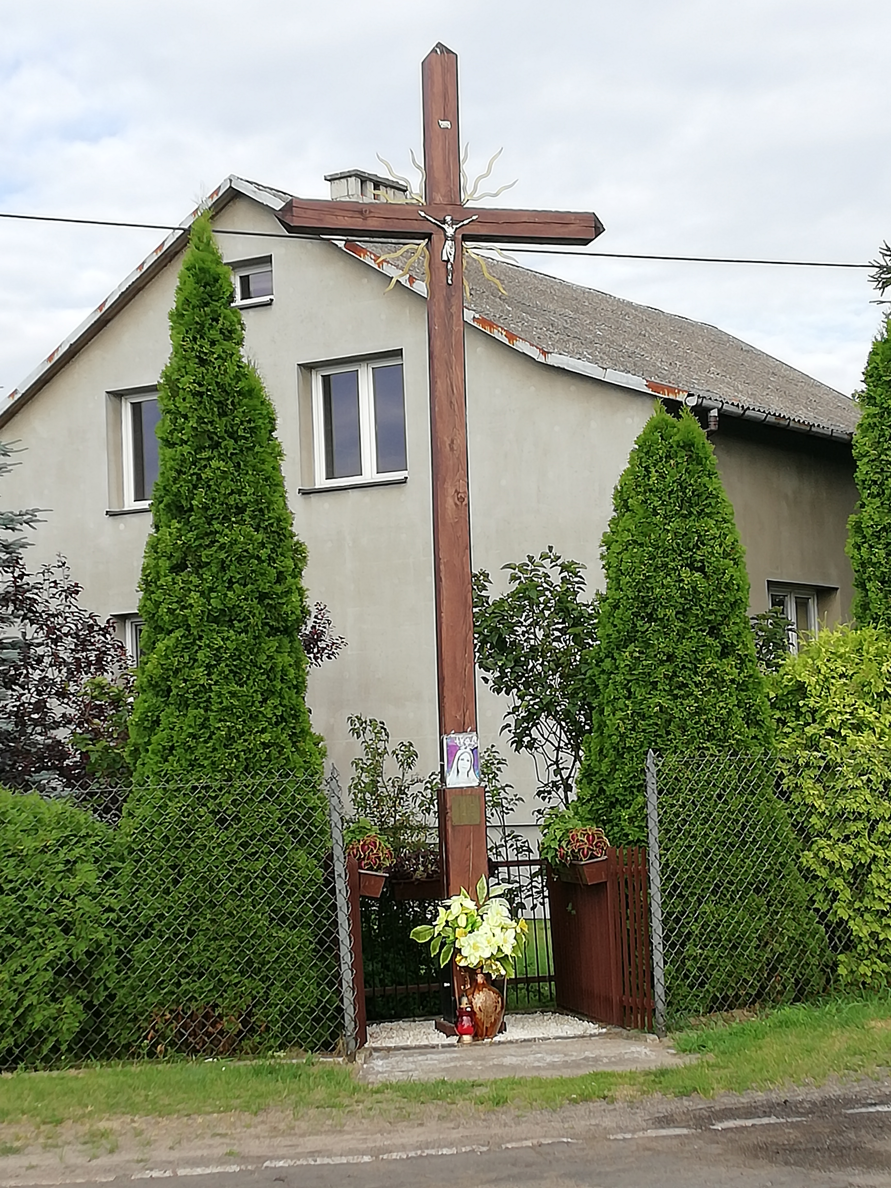 Cross in center of Piotrowice